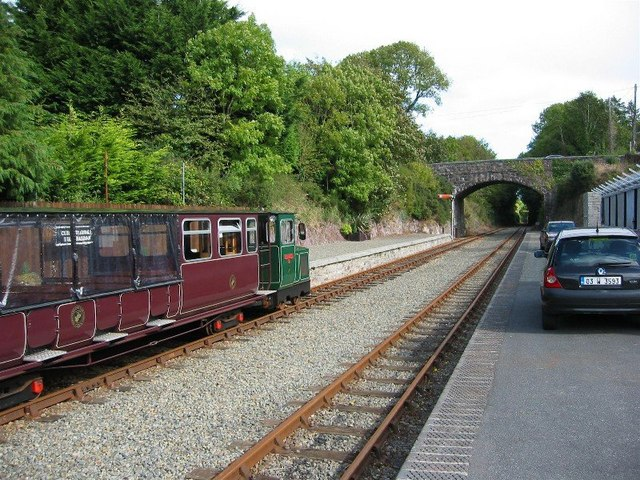 Waterford & Suir Valley Railway Waterford & Suir Valley Railway near Kilmeadan is a narrow gauge railway on part of the old Waterford to Dungarvan railway.